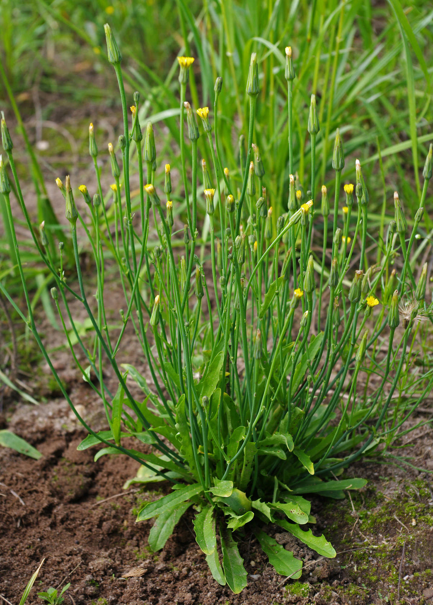 The plant Hypochaeris glabra in an organically-farmed sandy field.